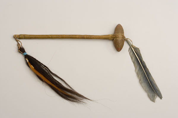 War Club Plateau Men used the kopluts (war club) as a striking weapon. Generally, the club had a short handle that provided for better leverage when fighting man-to-man. When these were used from horseback, the handle was longer to lengthen the reach of the warrior. This particular kopluts has an oval head made from catlinite and wrapped in sinew on a wooden handle that has been dyed red. Catlinite, rawhide, horsehair. L 43.3, W 11.3 cm Nez Perce National Historical Park, NEPE 2166